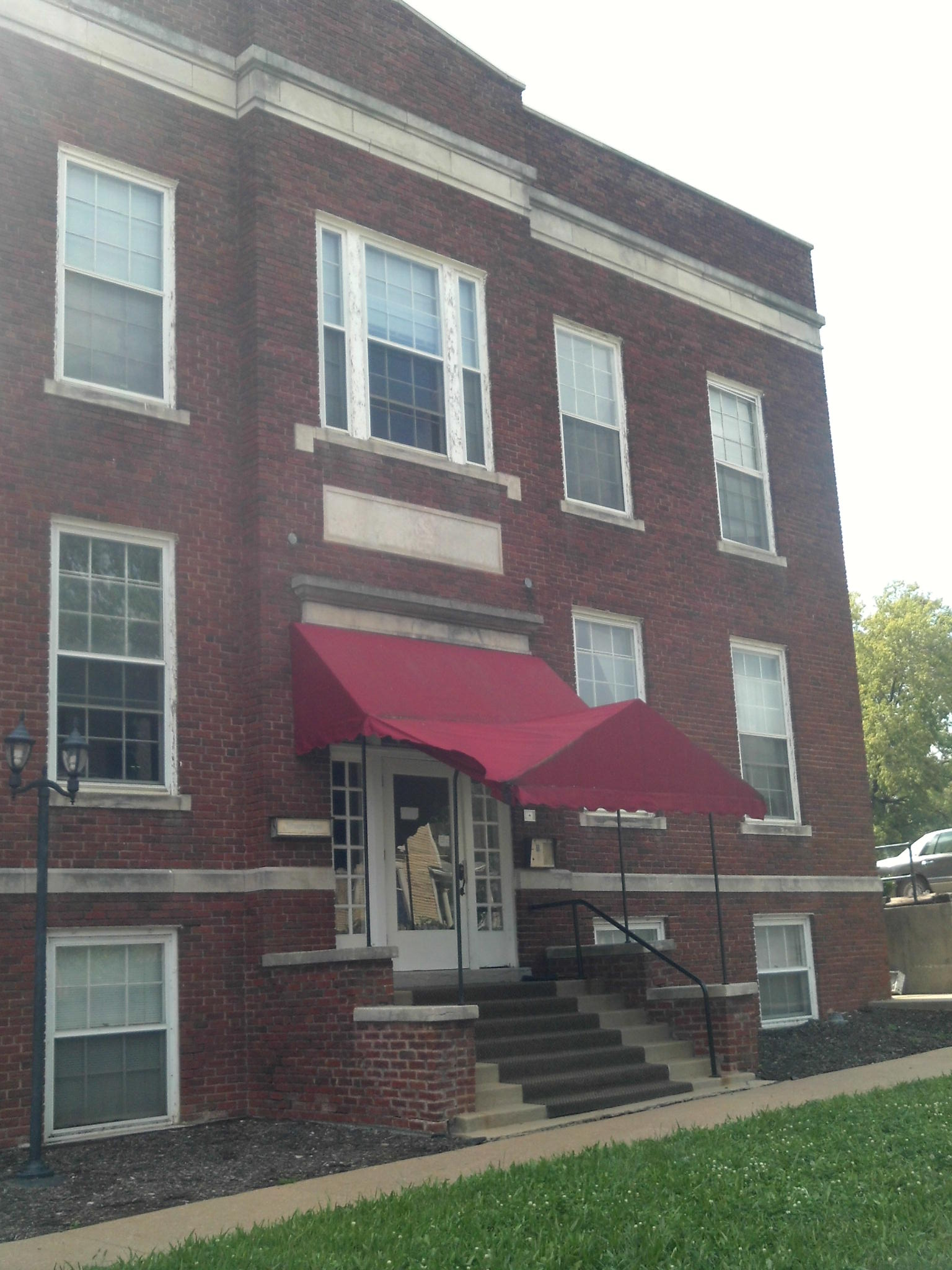 St. John